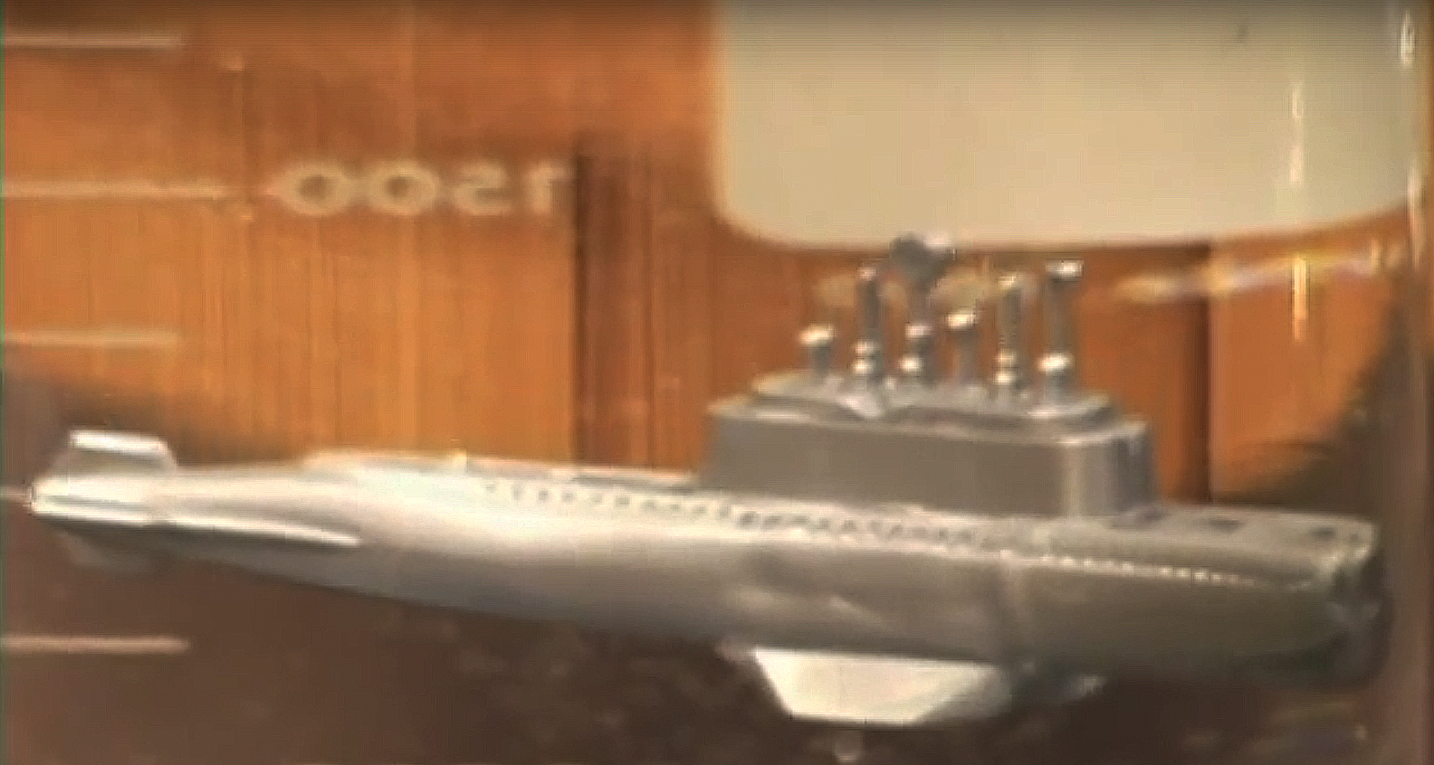 A screencap from a Baking Powder Submarine demonstration video by the North Carolina School of Science and Mathematics